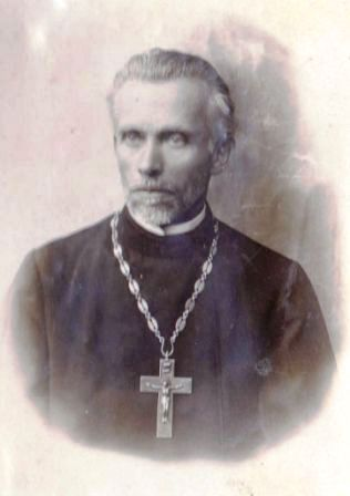 Orthodox priest Kanstantsin Pilinkiewich